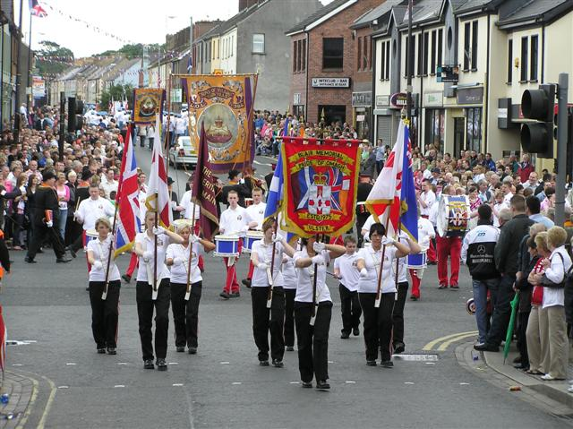 The Blair Memorial Band parade in Omagh on 12th July 2008, with Orangemen in the background.